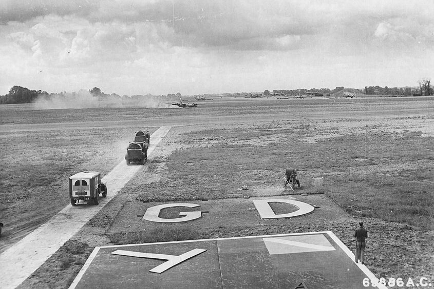 The Martin B-26C-25-MO Marauder (s/n 41-35247) named "Carefree Carolyn" from the 552nd Bomb Squadron, 386th Bomb Group comes in for a wheels-up landing after completing its 100th mission. Great Dunmow Airfield, Essex, England (UK).